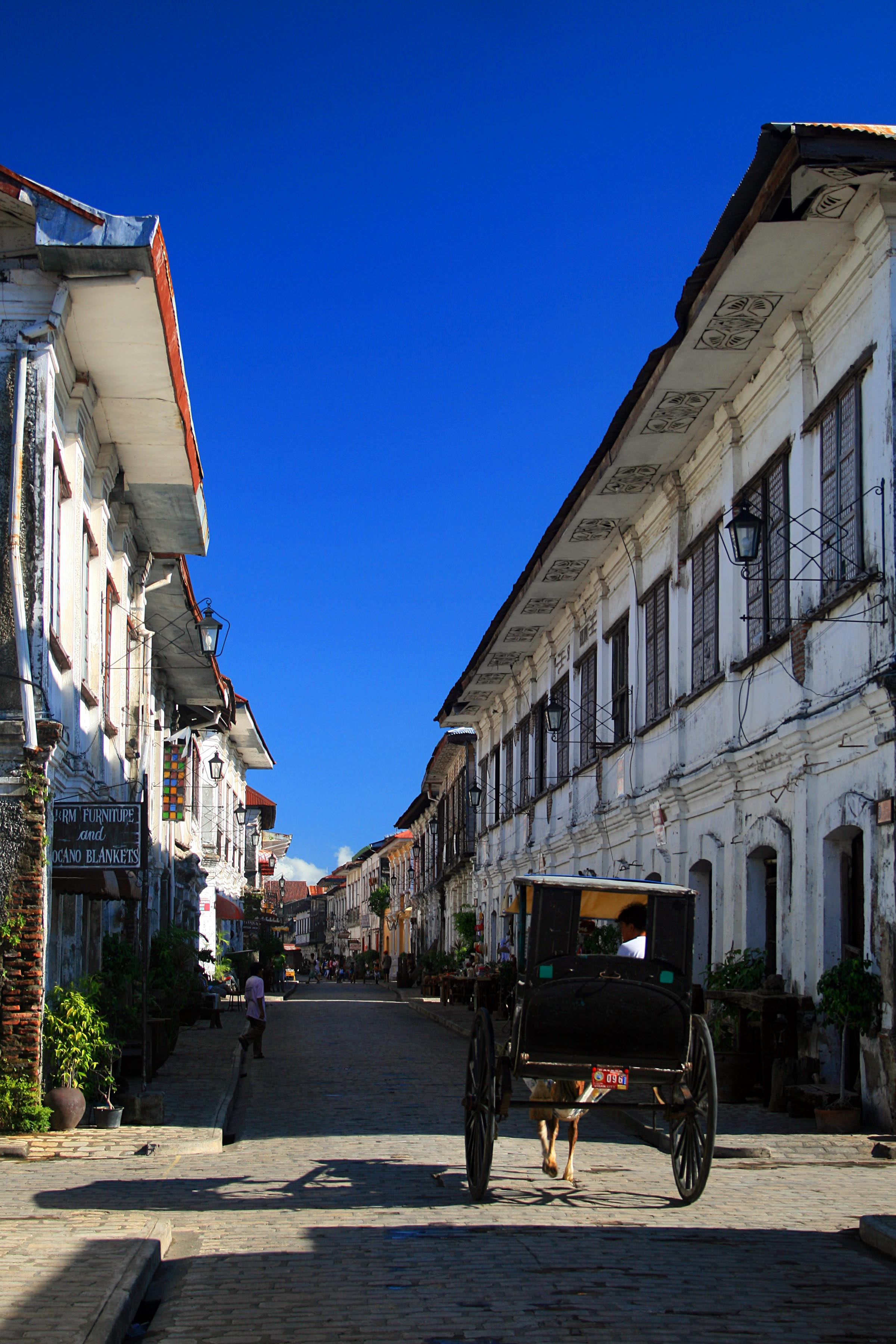 Calle Crisologo, Vigan, Ilocos Sur